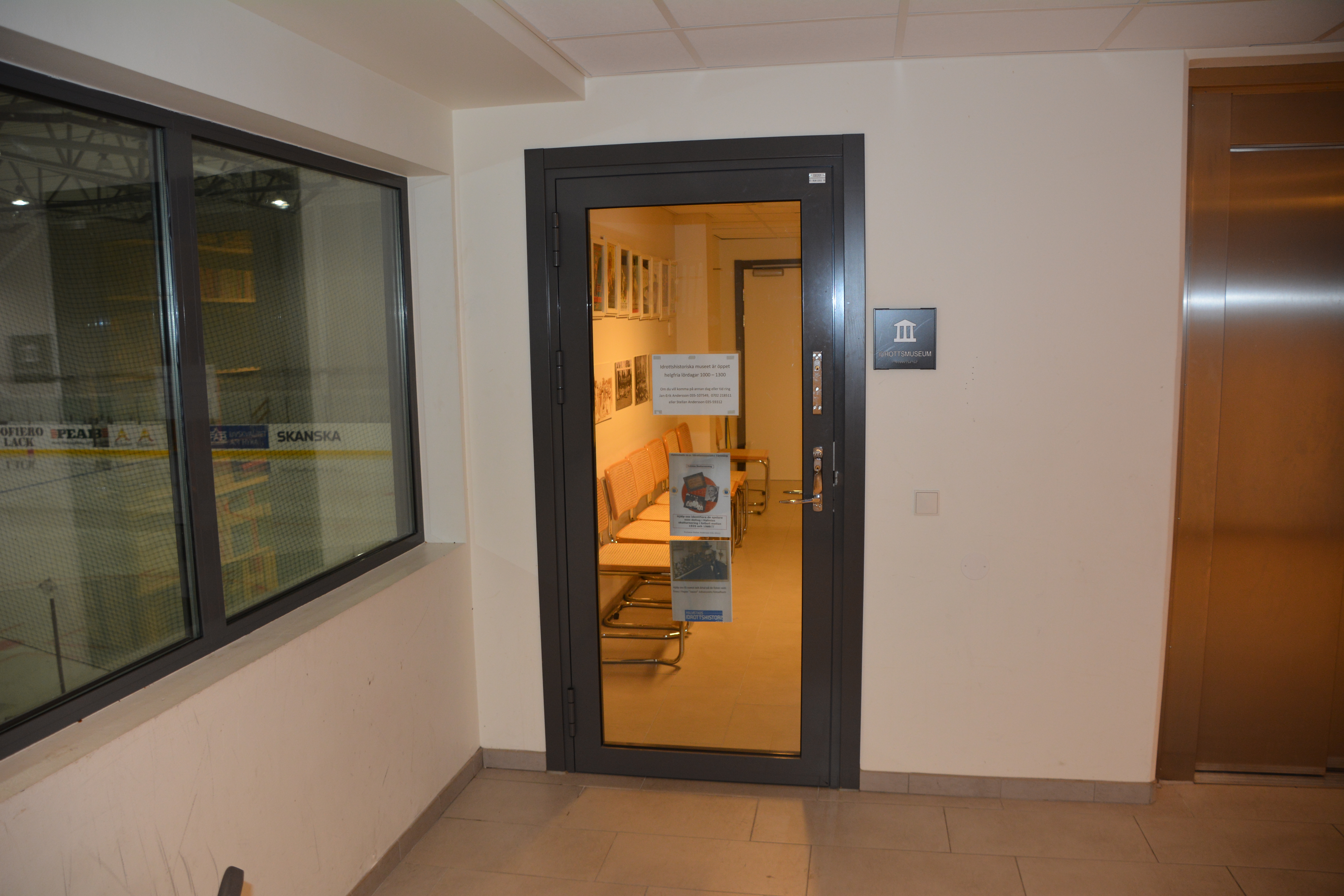 Ingången till Halmstads idrottsmuseum, Halmstad Arena